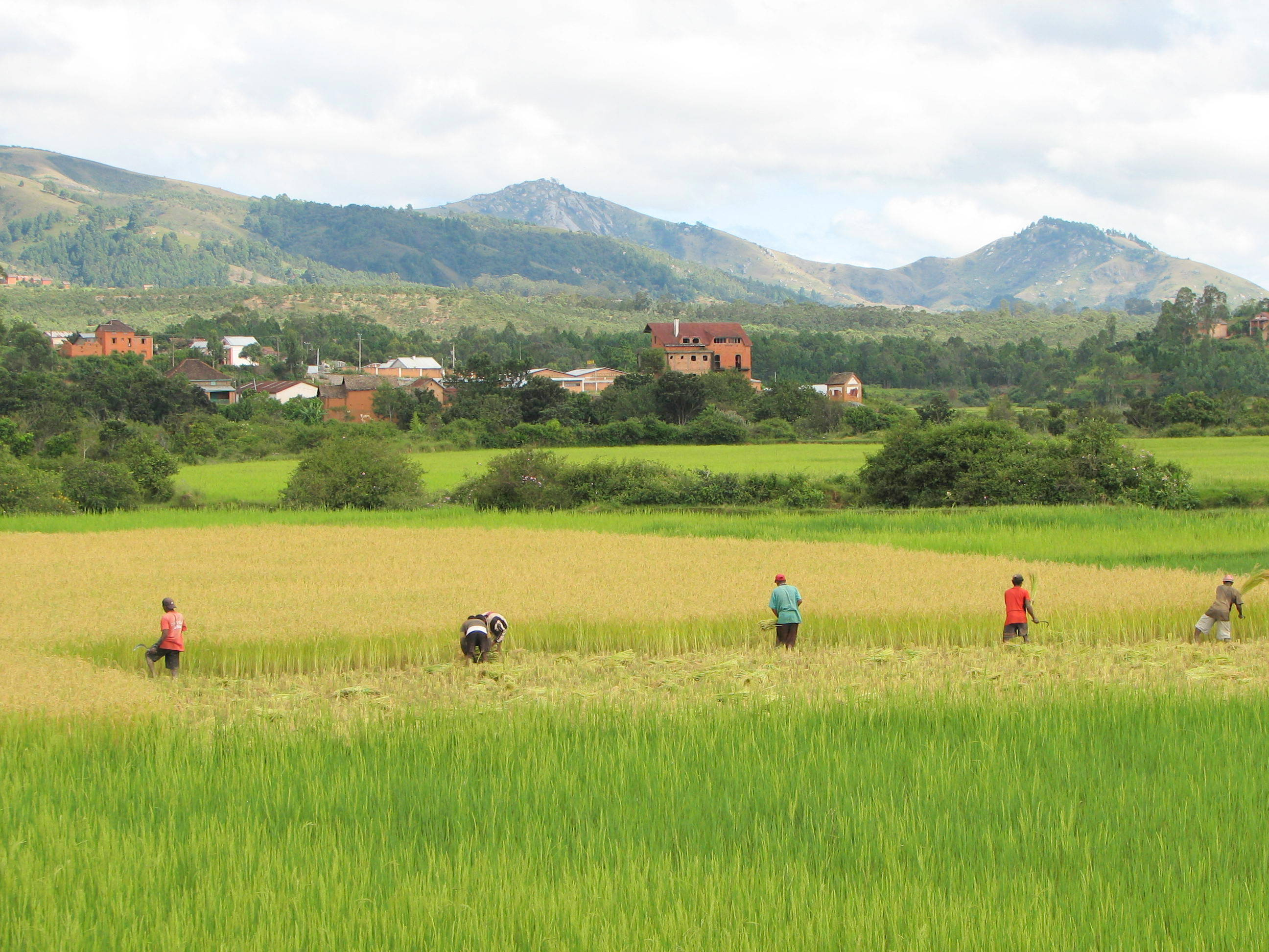 Rice crop near Ambositra, MadagascarBân-lâm-gú: 割稻仔。（倚馬達加斯加(Madagascar)安波西特拉(Ambositra)的附近）